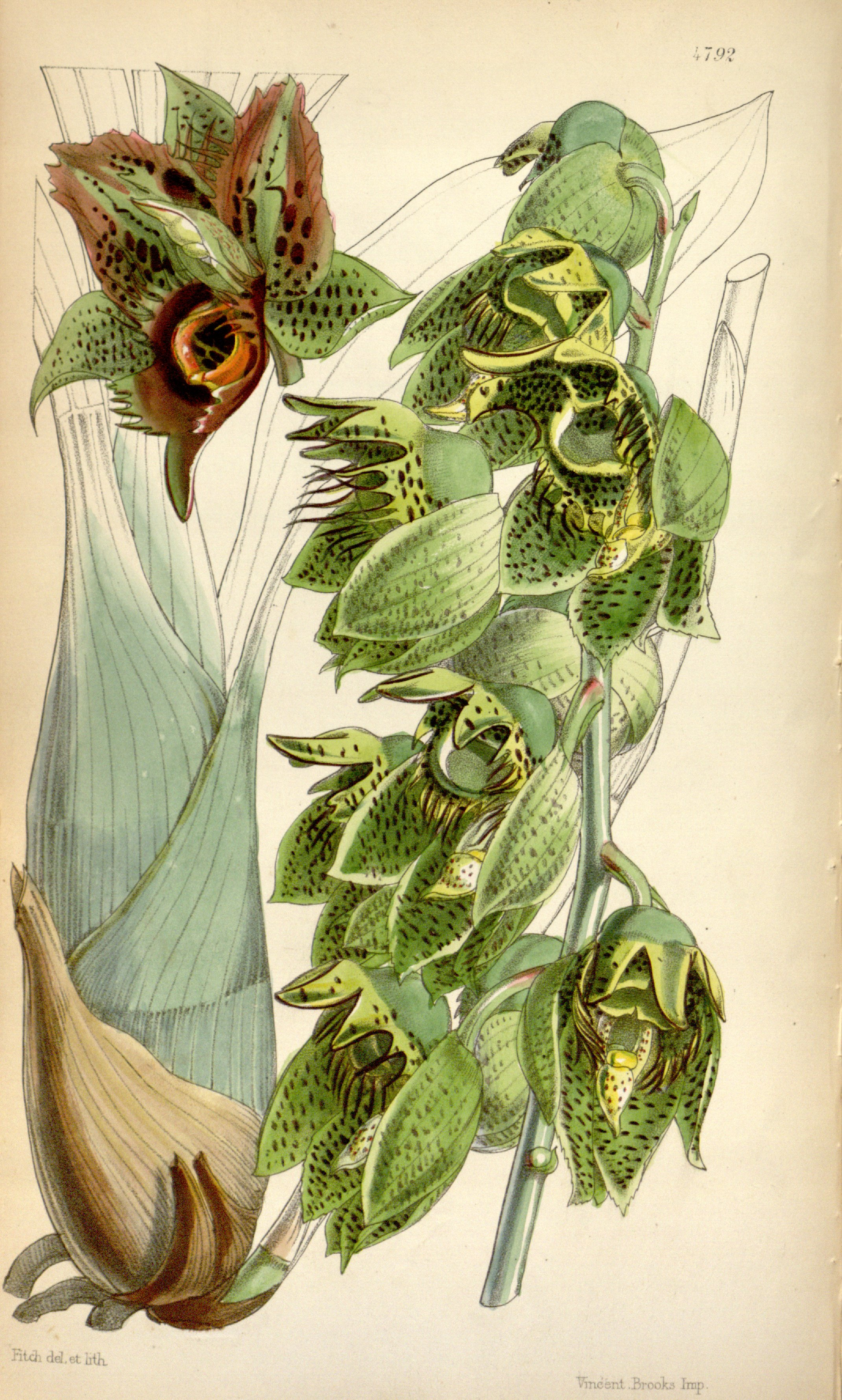 Illustration of Catasetum naso